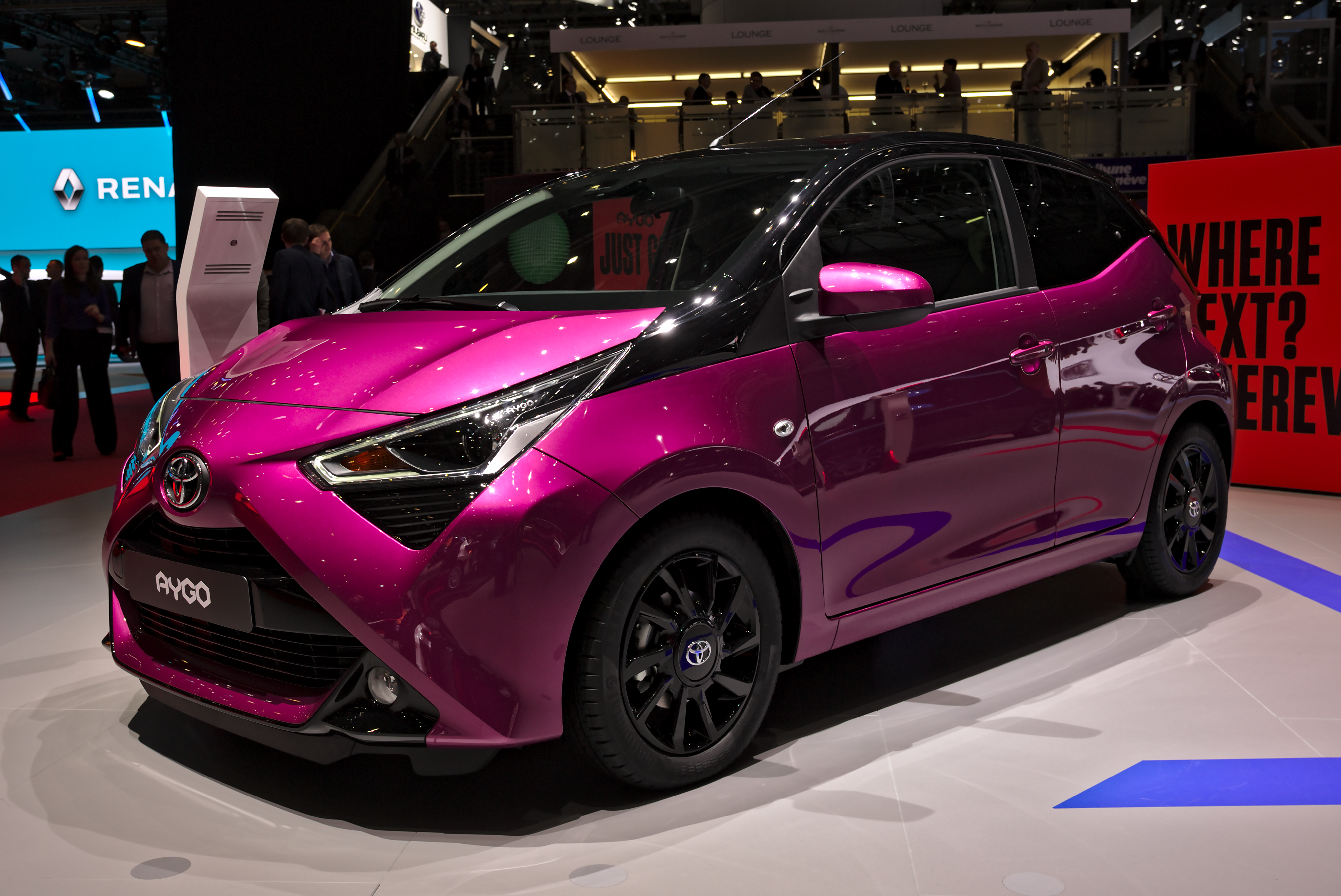 Toyota Aygo at Geneva Motorshow 2018